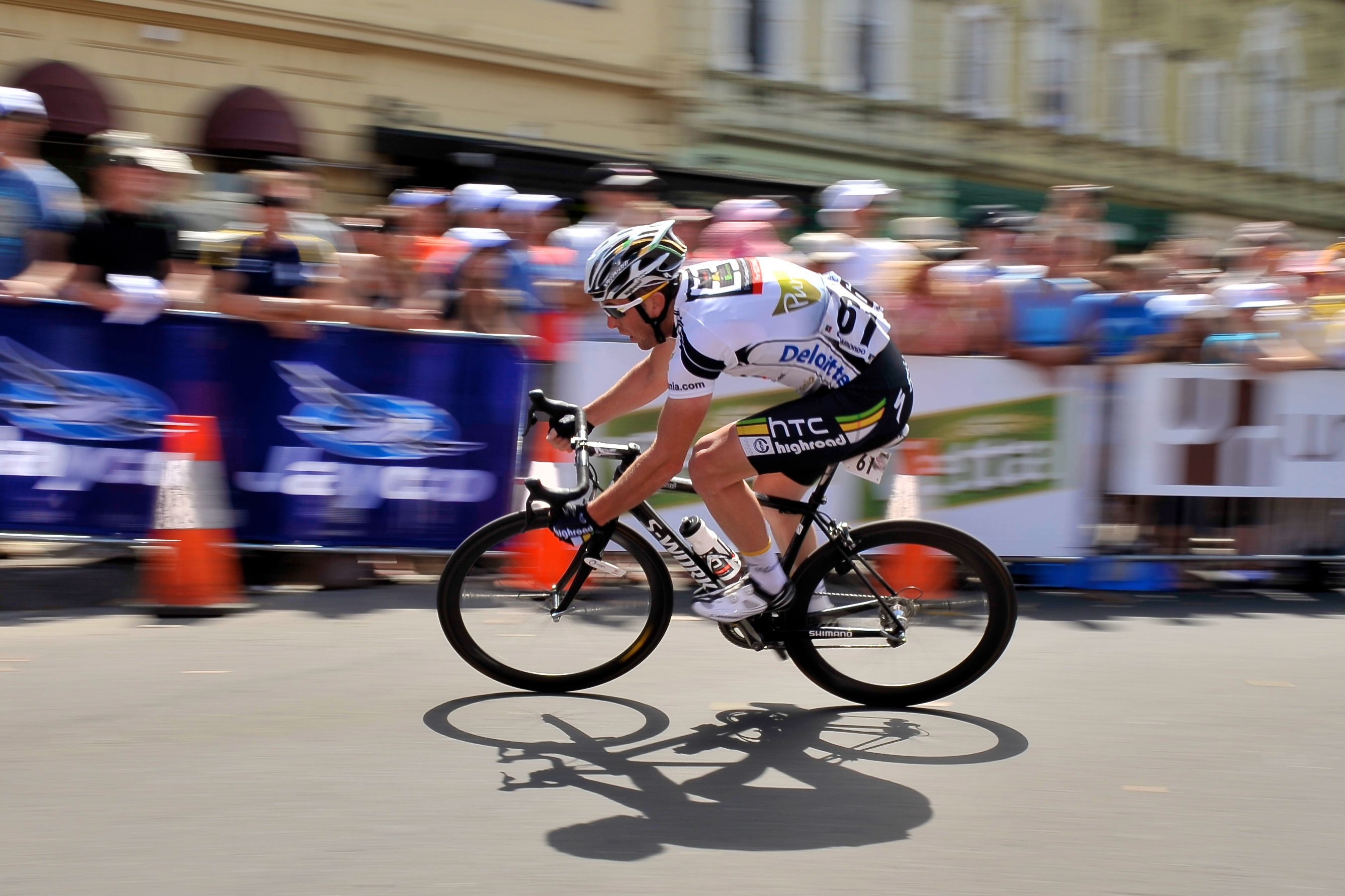 Matthew Goss winning the Jayco Bay Cycling Classic 2011